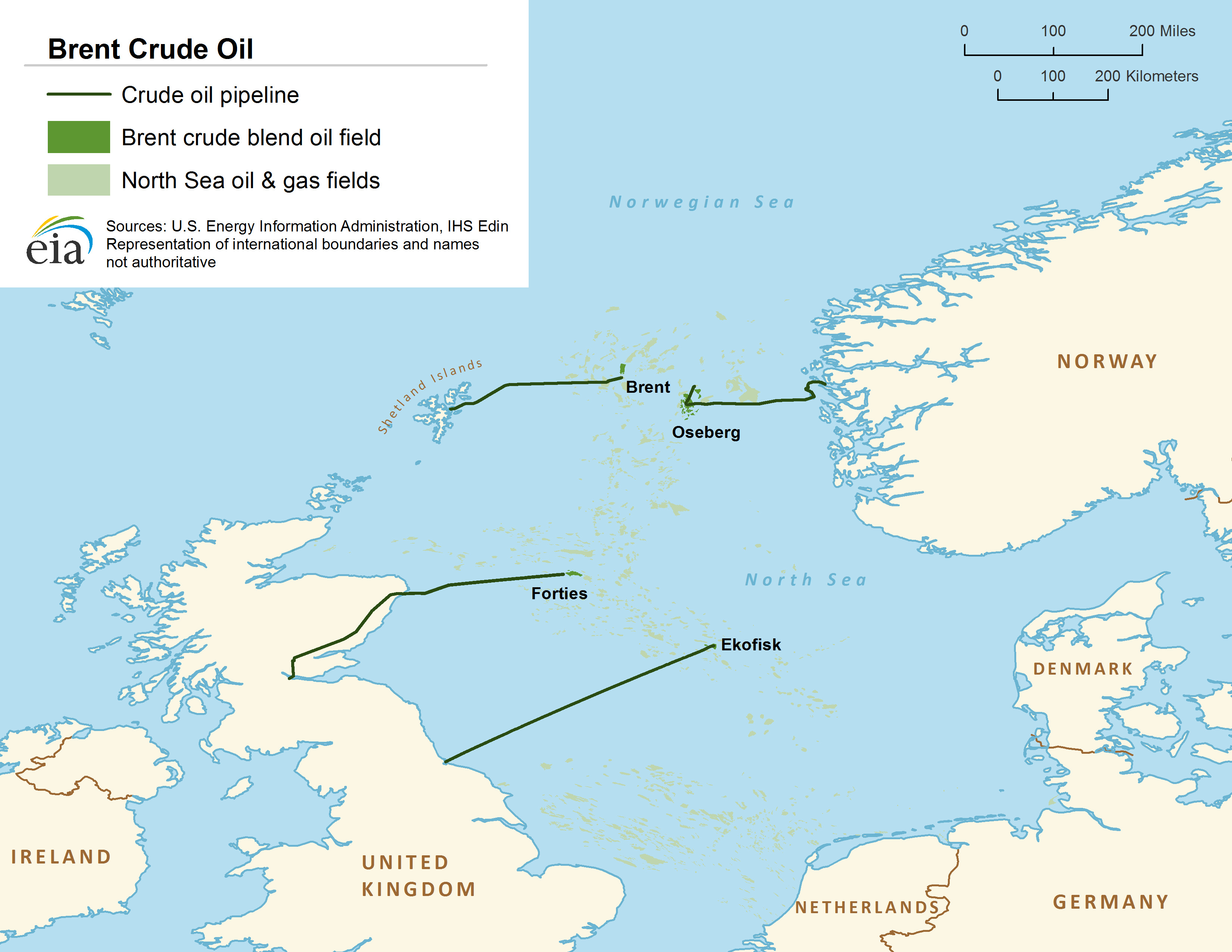 Location of Brent oil platform in the North Sea